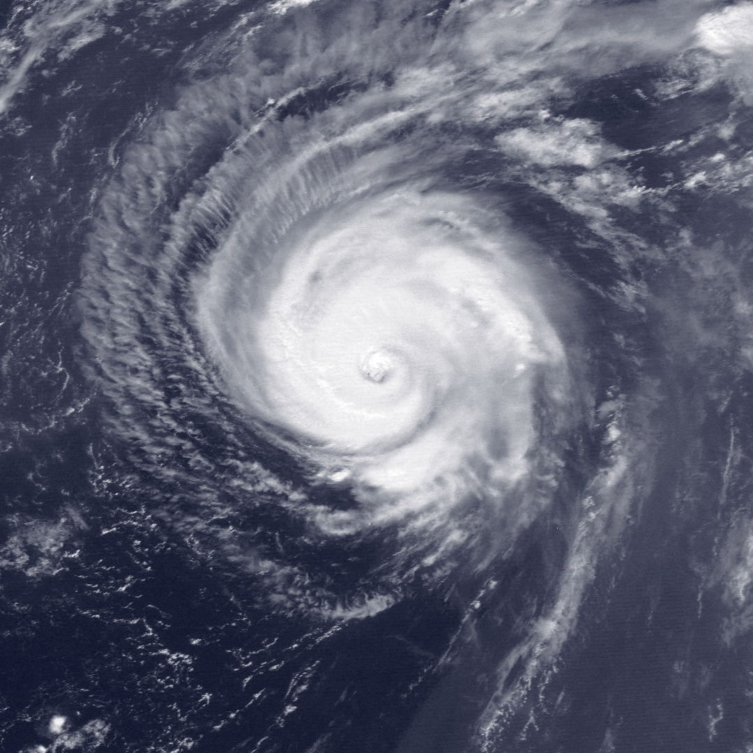 Hurricane Gustav at peak intensity in the Central Atlantic on August 31, 1990